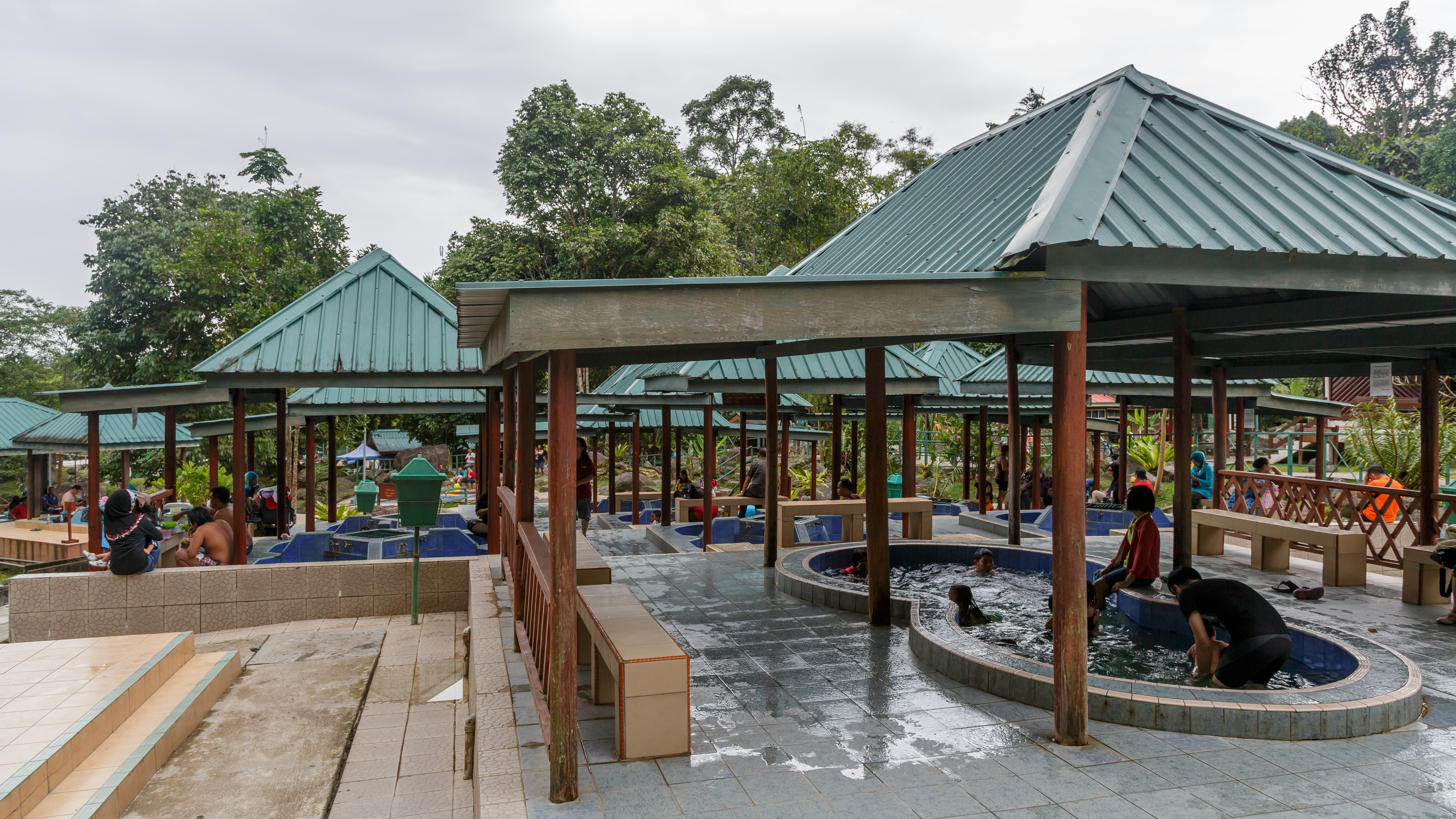 Kg. Poring, Ranau, Sabah: Poring Hot Springs